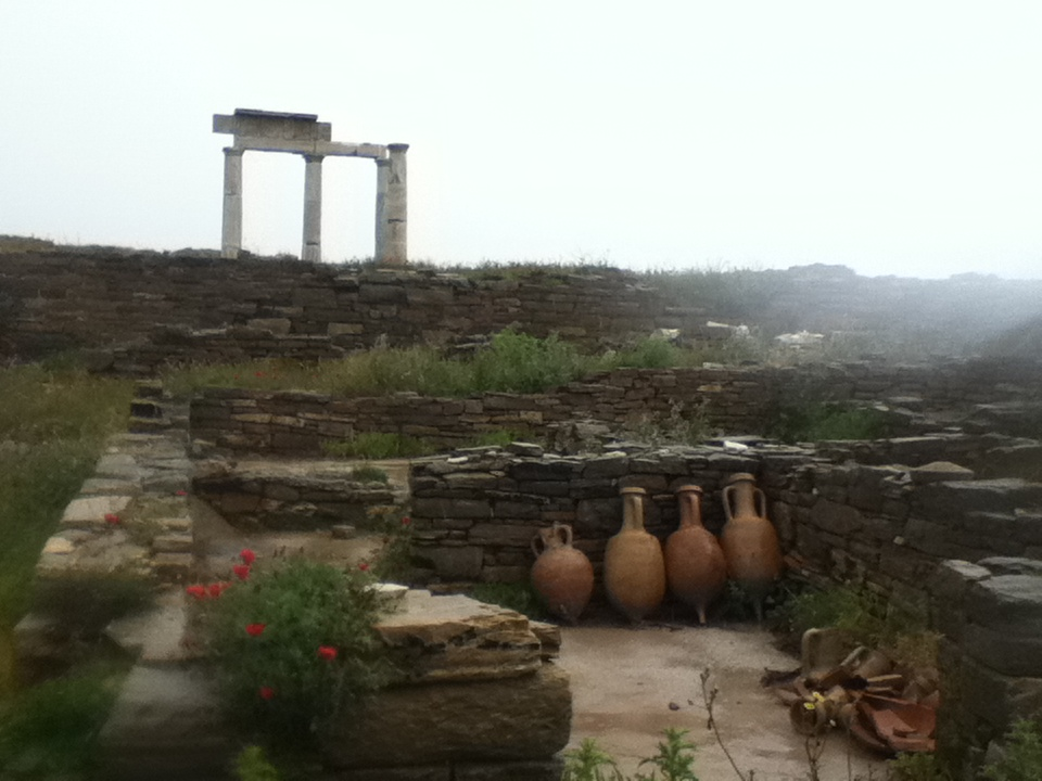 Reconstructed side on Delos showing antique vases and soils.